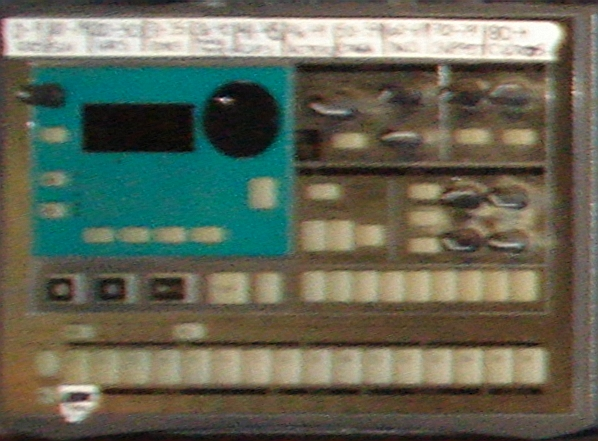 KORG Electribe S (ES-1) clipped from Shawn Rudiman's Studio, Pittsburgh, PA